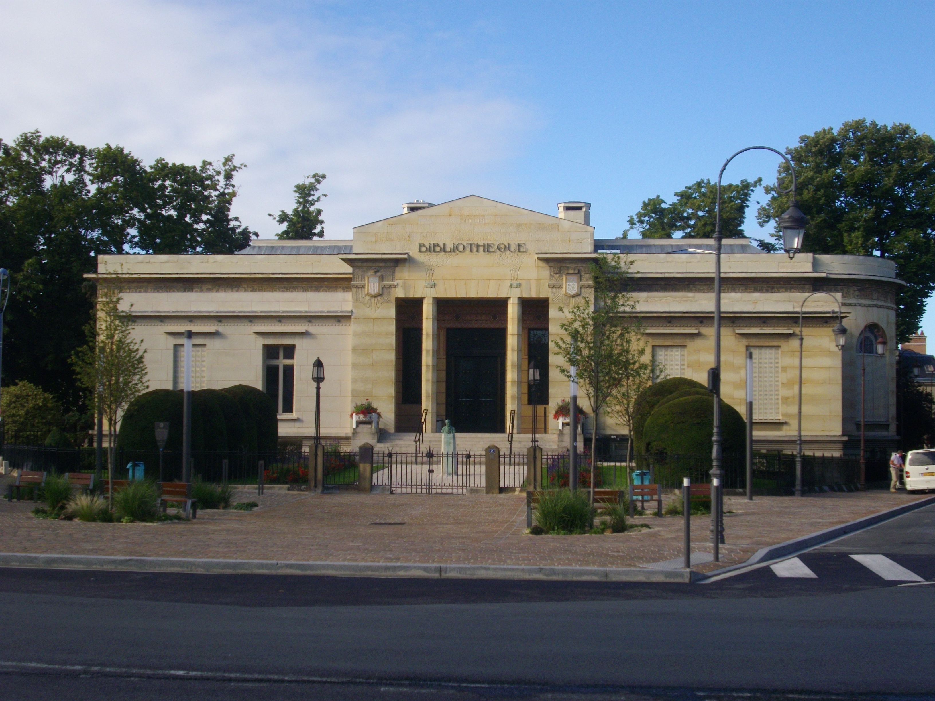 Carnegie library of Reims (Marne, France) .